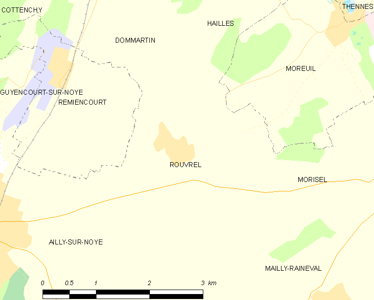 Map of French municipality Rouvrel